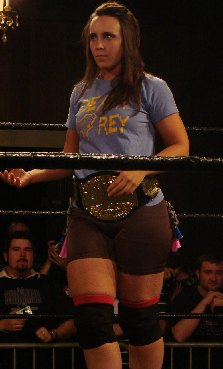 Sara Del Ray at a SHIMMER - Women Athletes event. Eagles Club, Berwyn, IL, October 13, 2007. Taken by me, rotated and cropped.